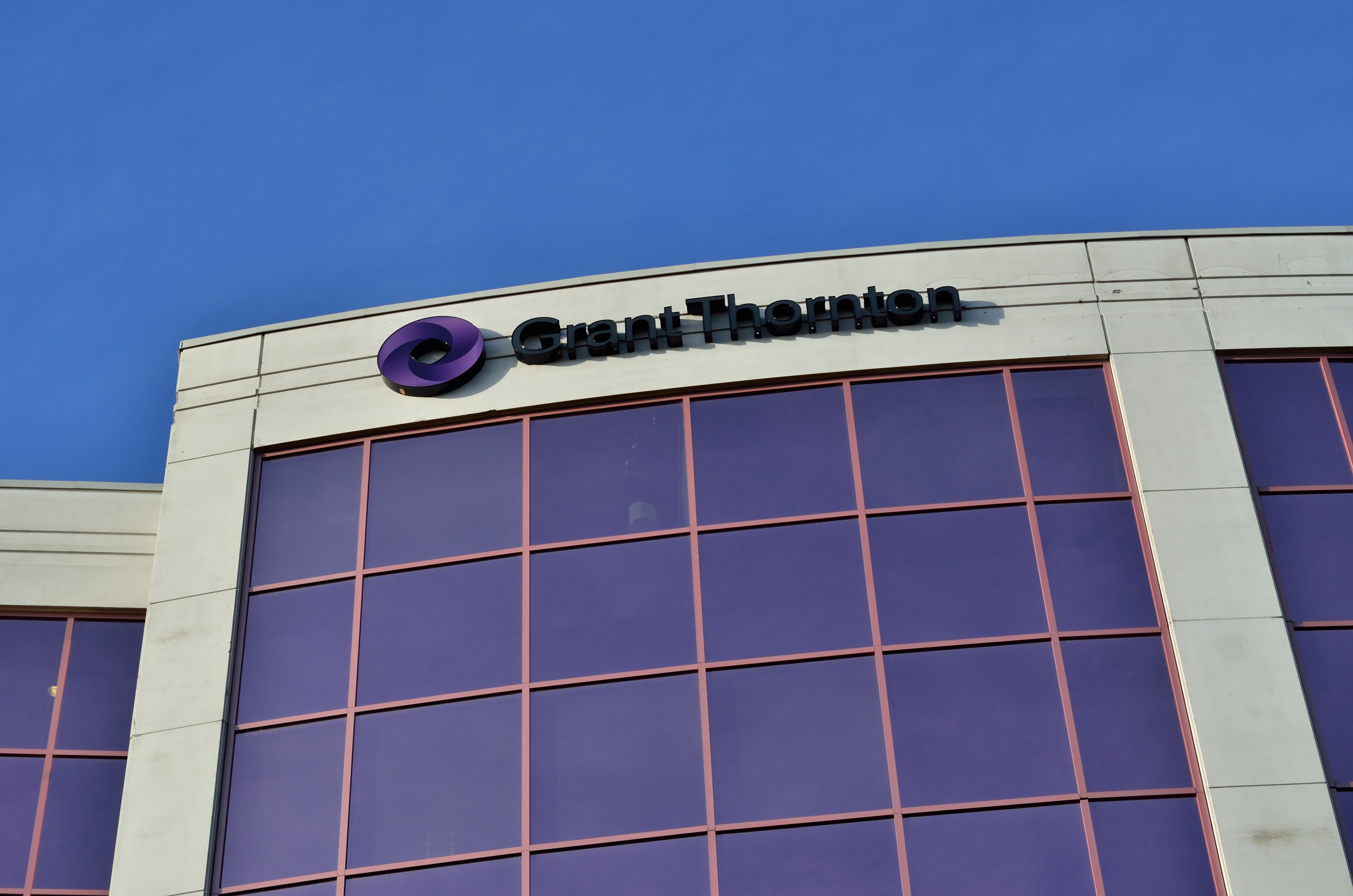 Grant Thornton office in Markham